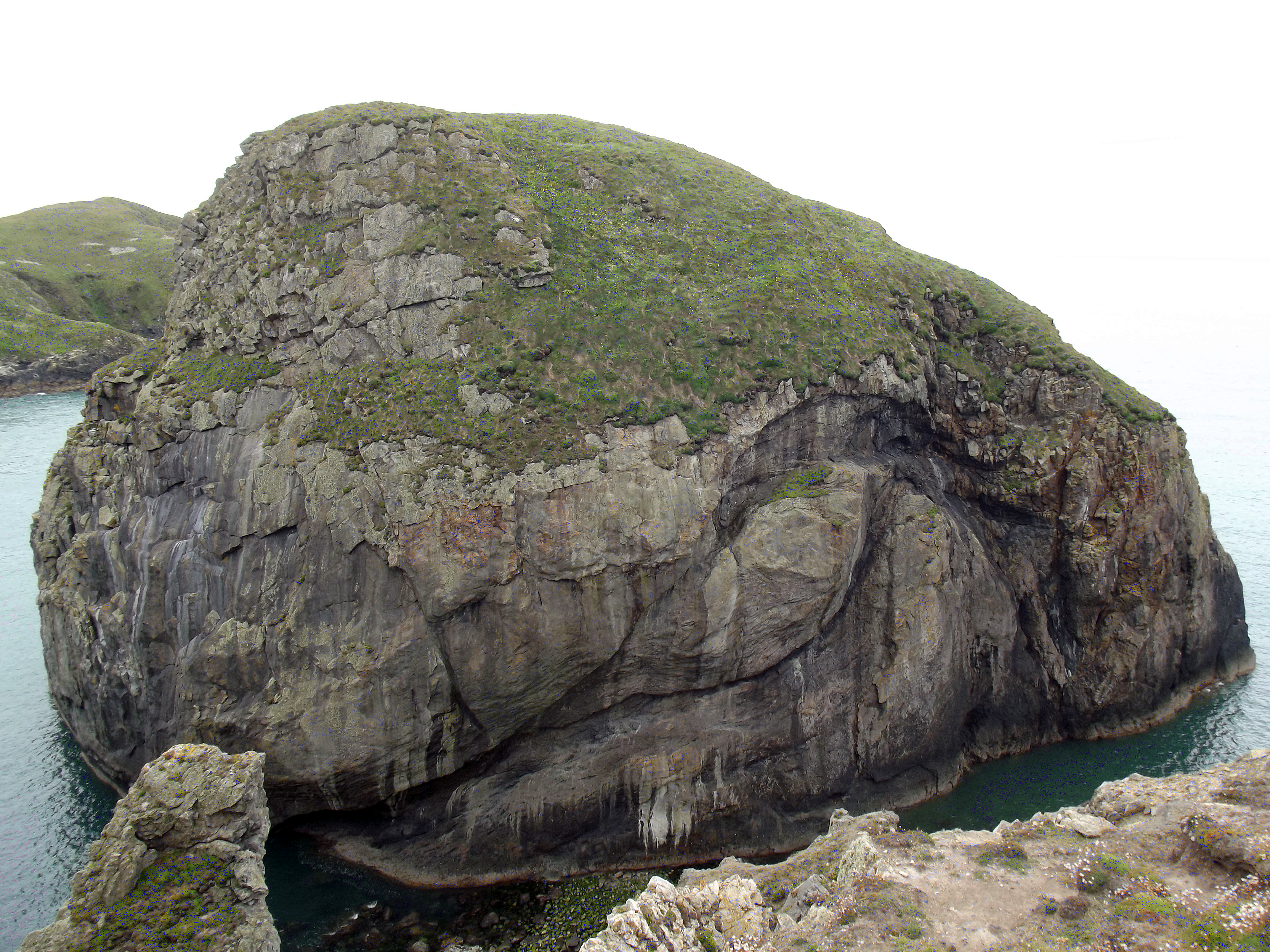 Ynys Gwelltog from Ramsey Island (Wales, UK)